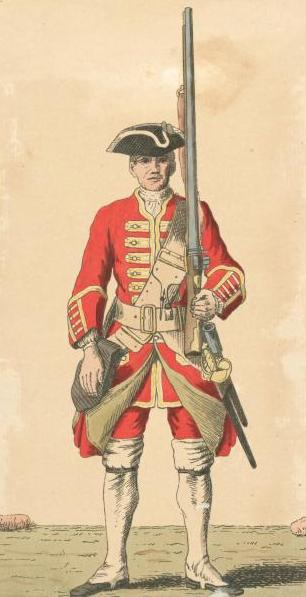 Soldier of the 47th regiment (1742)